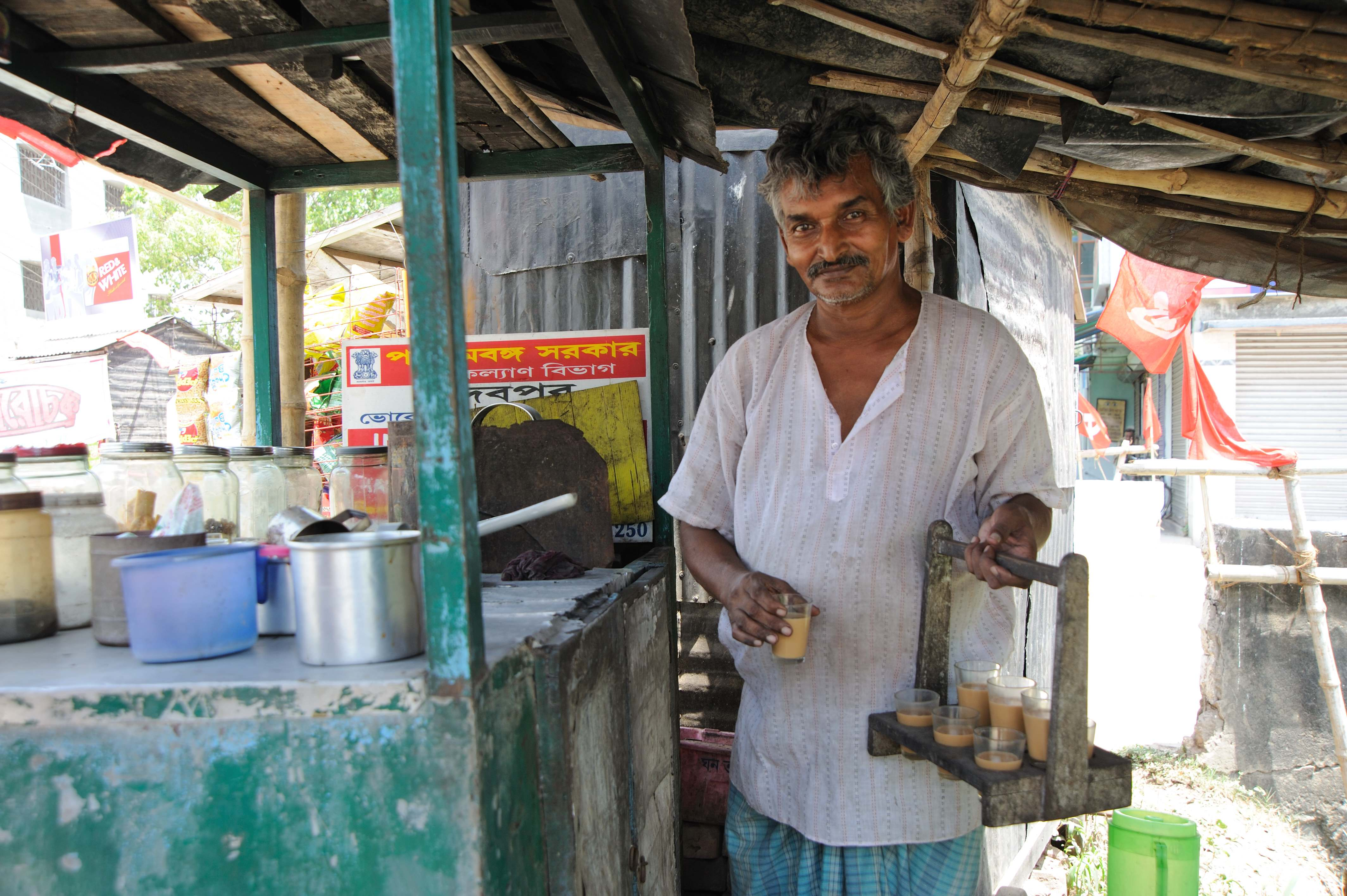 Exit polls have had a mixed record in the past, given the difficulty of projecting election results for India's approximately 1.1 billion people.